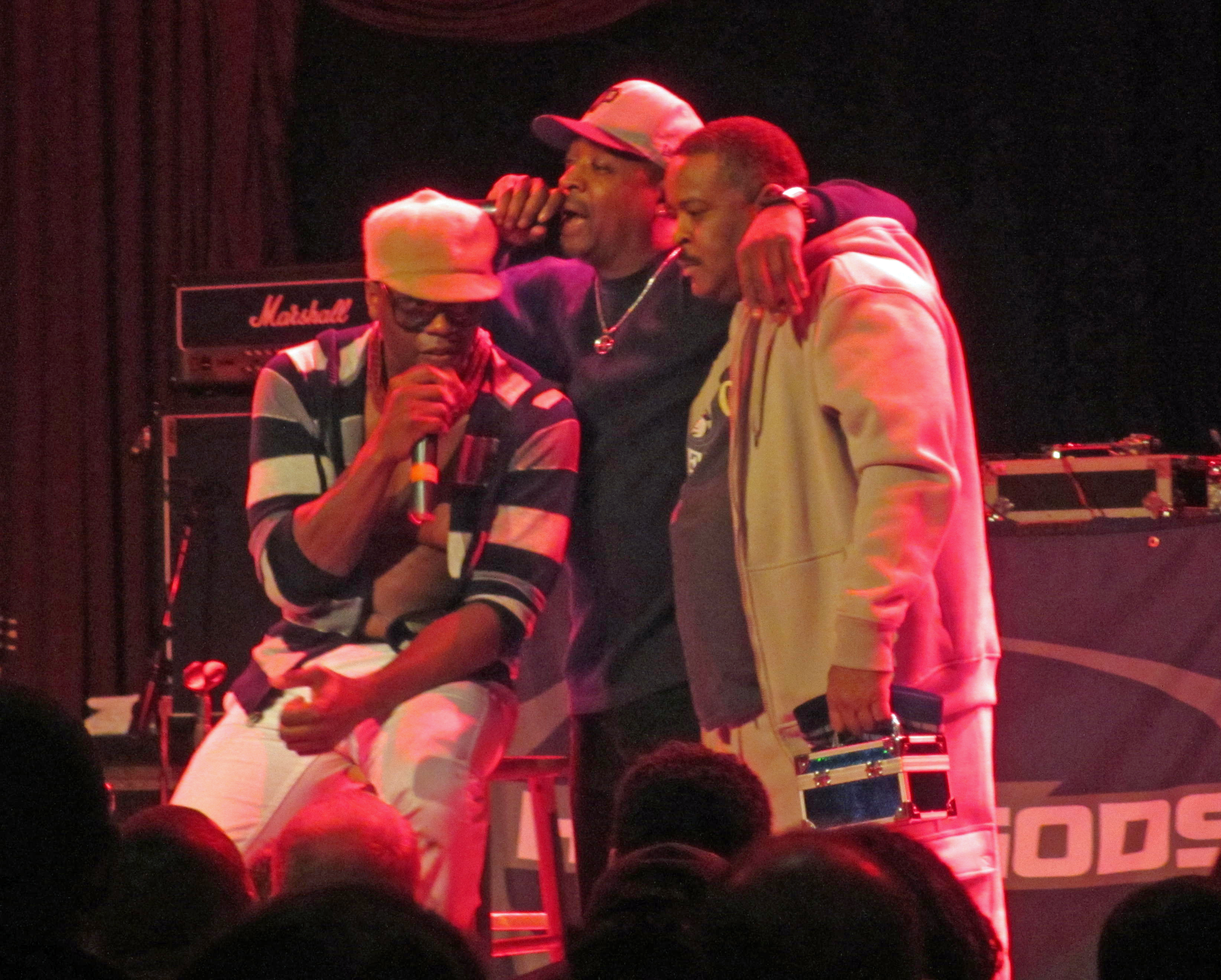 Hip hop artists Chuck D and Schooly D performing at the House of Blues in Chicago on 12/8/2012